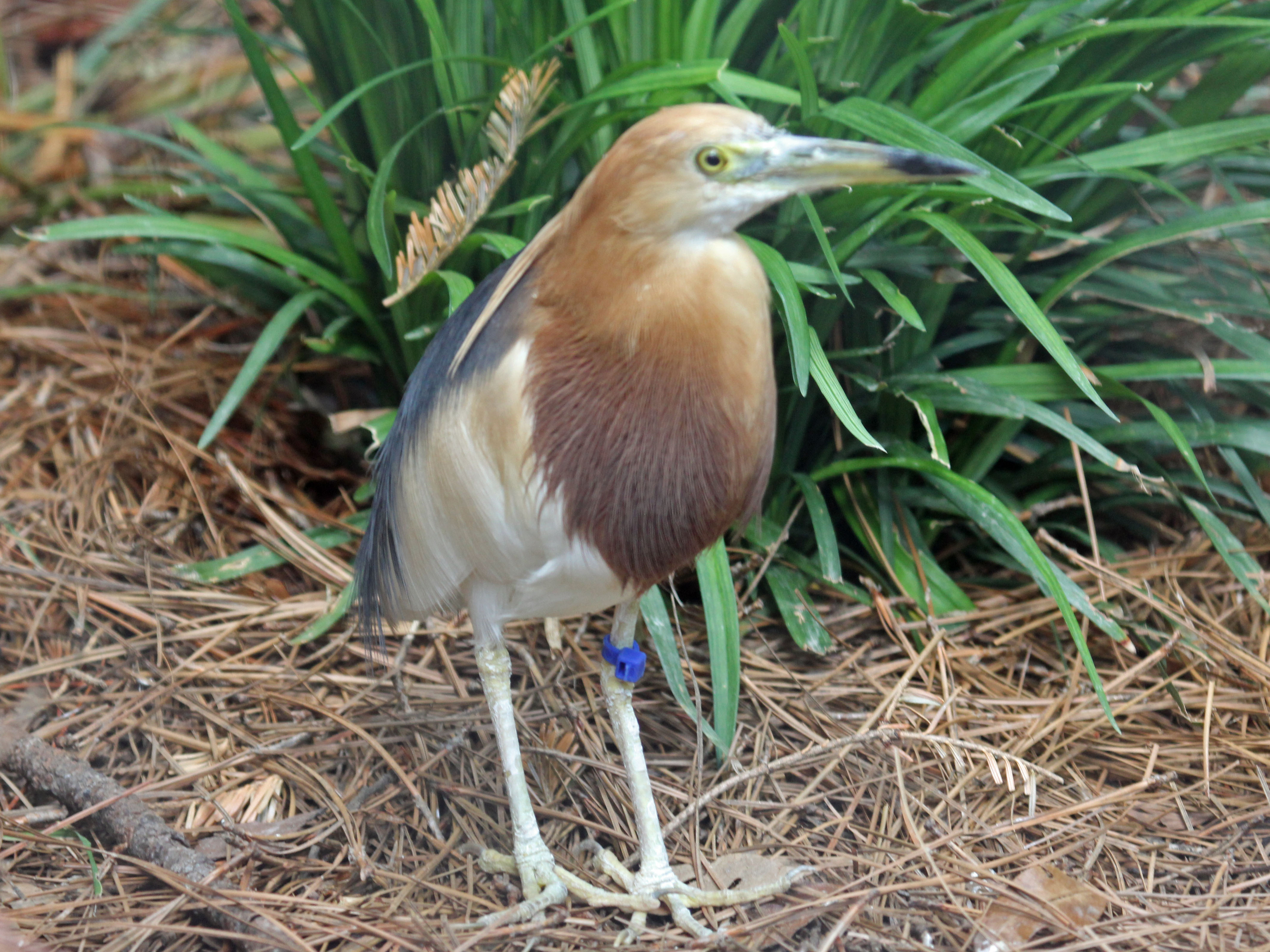 Javan Pond Heron (Ardeola speciosa) - Sylvan Heights Waterfowl Park, Scotland Neck, North Carolina